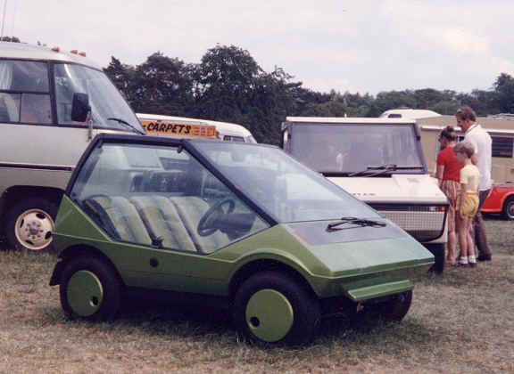 William Towns designed Microdot photographed by myself in 1980 (approx)